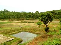 Thakeri Village, Somwarpet